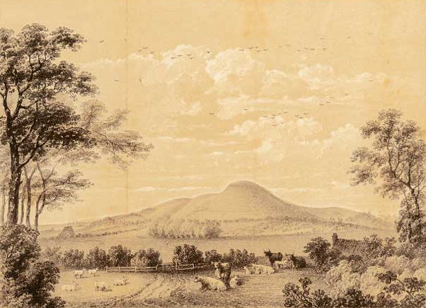 painting of Mount Caburn by J. Lambert, 1783